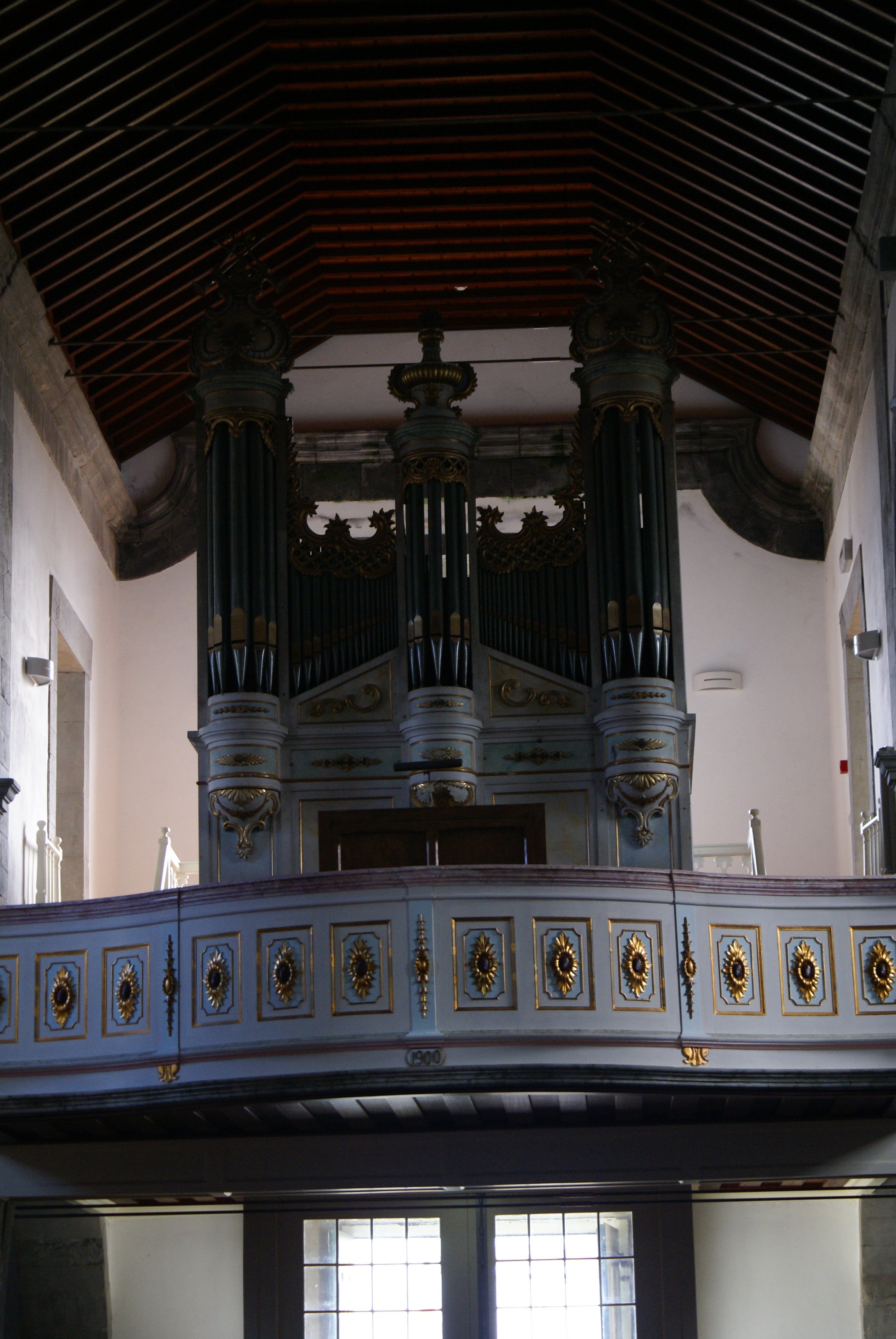 Igreja de Nossa Senhora da Graça, Orgão de Tubos, Praia do Almoxarife, Concelho da Horta, ilha do Faial, Açores, Portugal